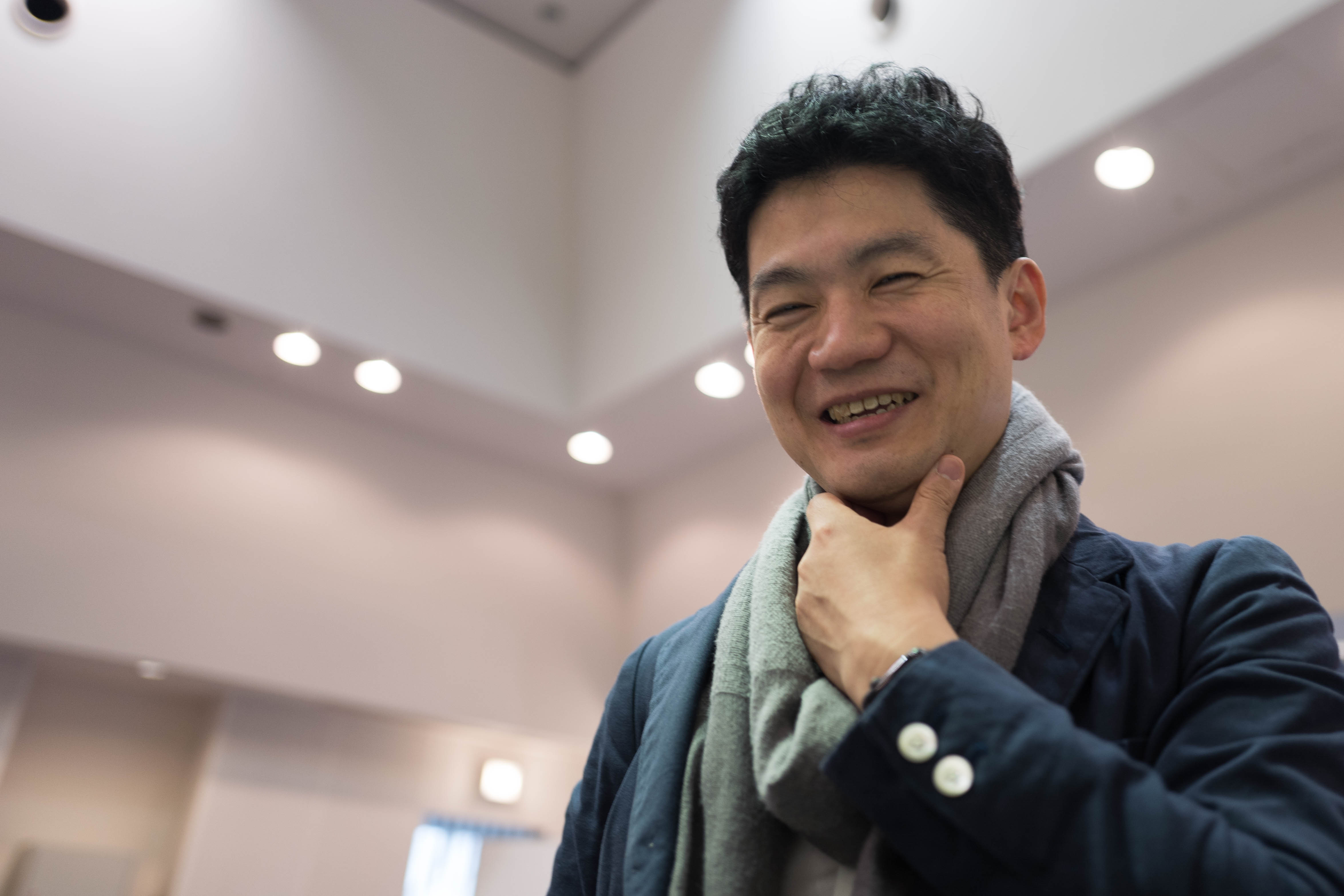 Kōichirō Eto, Senior Research Scientist of the Intelligent Systems Research Institute, National Institute of Advanced Industrial Science and Technology, attended the Center of Innovation -- Under One Roof, Just Two Days at the Youth Education National Olympics Memorial Youth Center in Shibuya Ward, Tokyo on January 30, 2016.